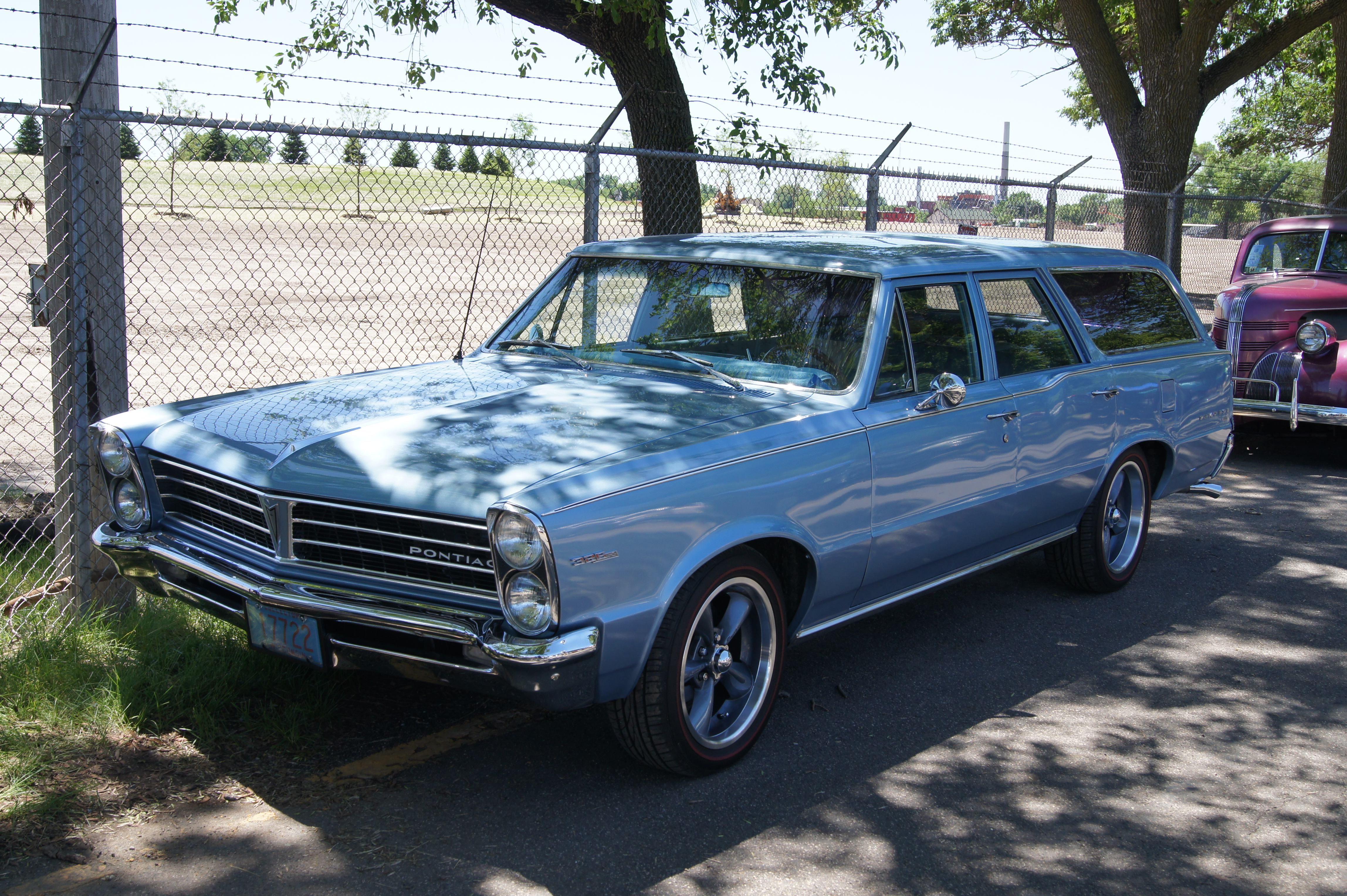 MSRA “BACK TO THE 50′s” 41st Annual June 20-22, 2014 State Fairgrounds St. Paul Minnesota More Car Pictures